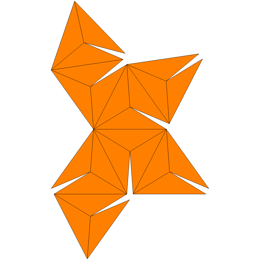 Triakisoctahedron net